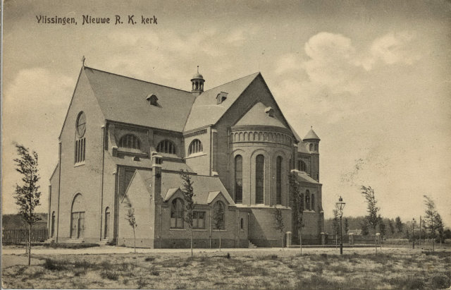 Onze Lieve Vrouwe van de Rozenkranskerk, Vlissingen the Netherlands